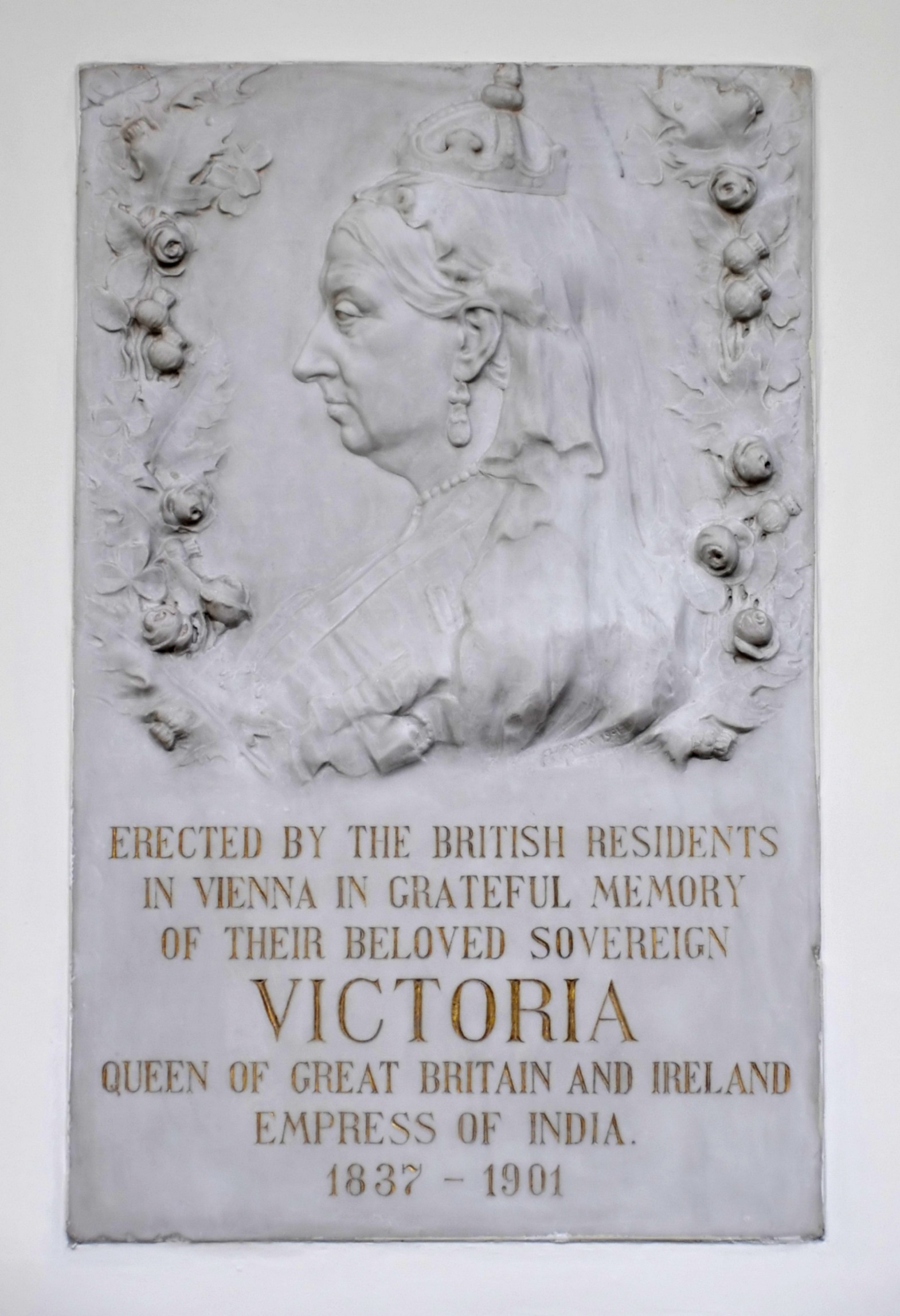 Marble relief of Queen Victoria erected after her death in 1901 by the sculptor Anton Hanak at Christ Church Vienna, Jauresgasse 17-19, Wien 3, Austria